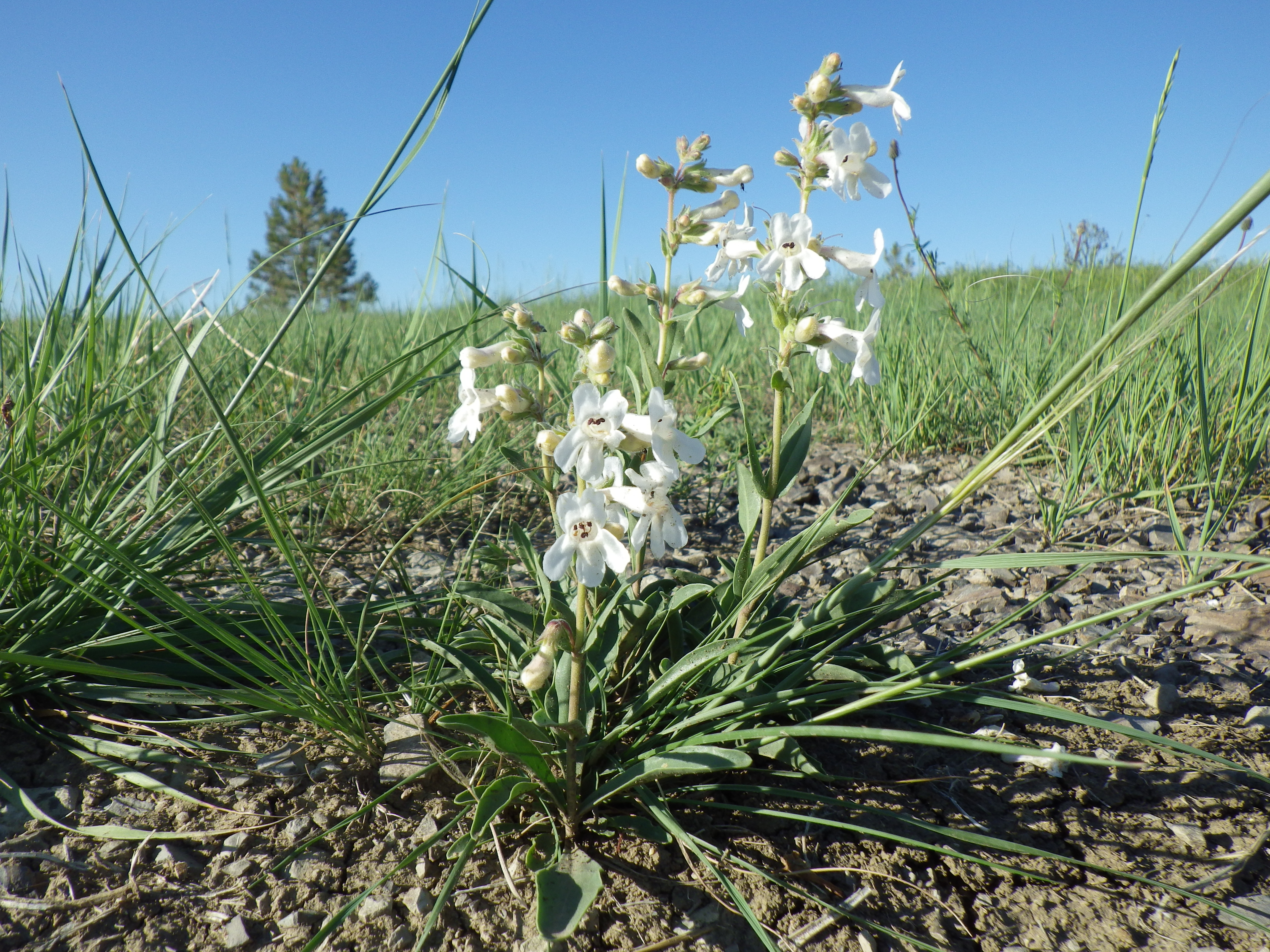 The whitish corollas that are glandular hairy distinguish this Penstemon from all others.